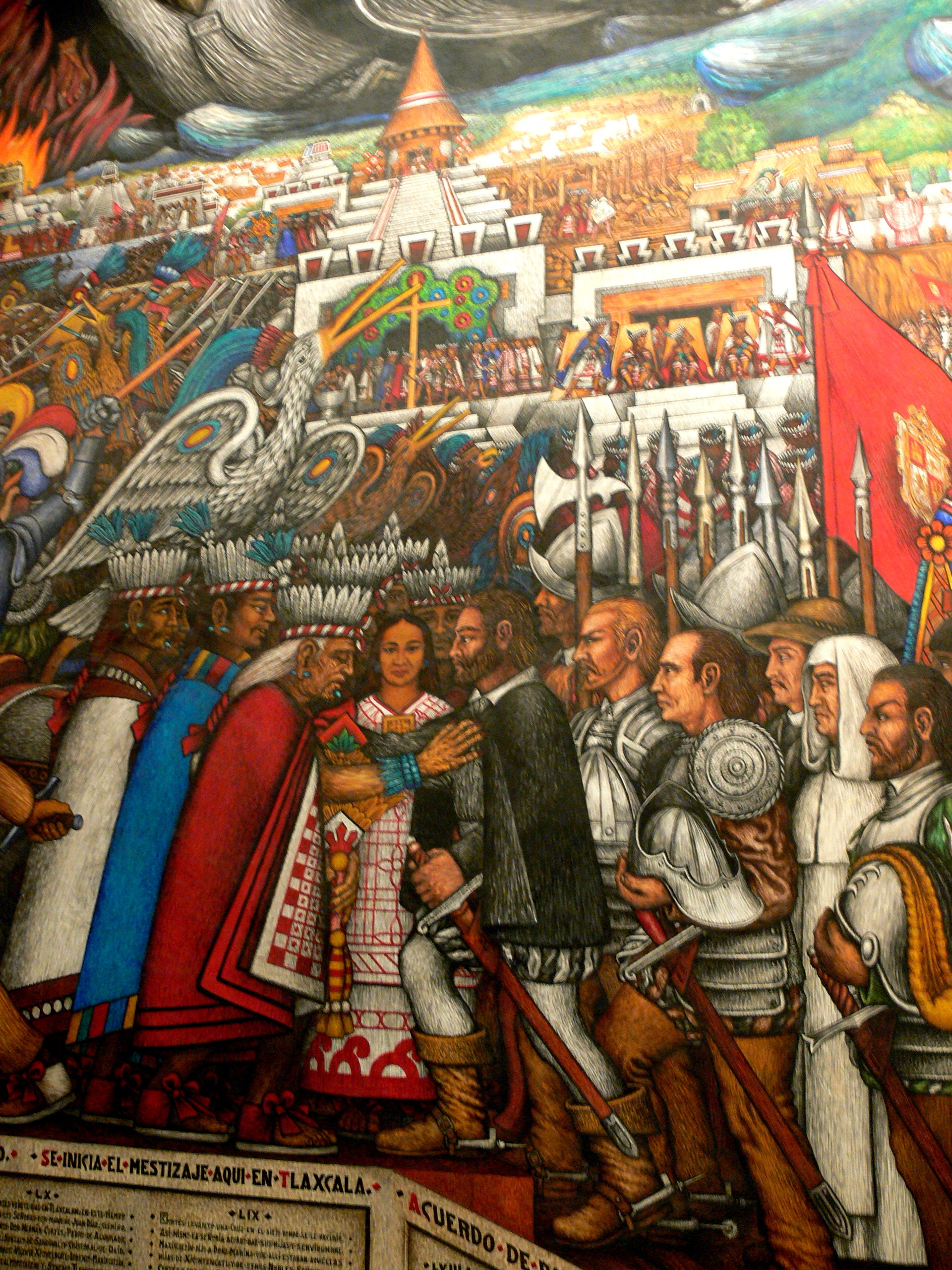 Tlaxcala city. Palacio de Gobierno: Murals - Discussions between Taxcaltecans and Cortes.